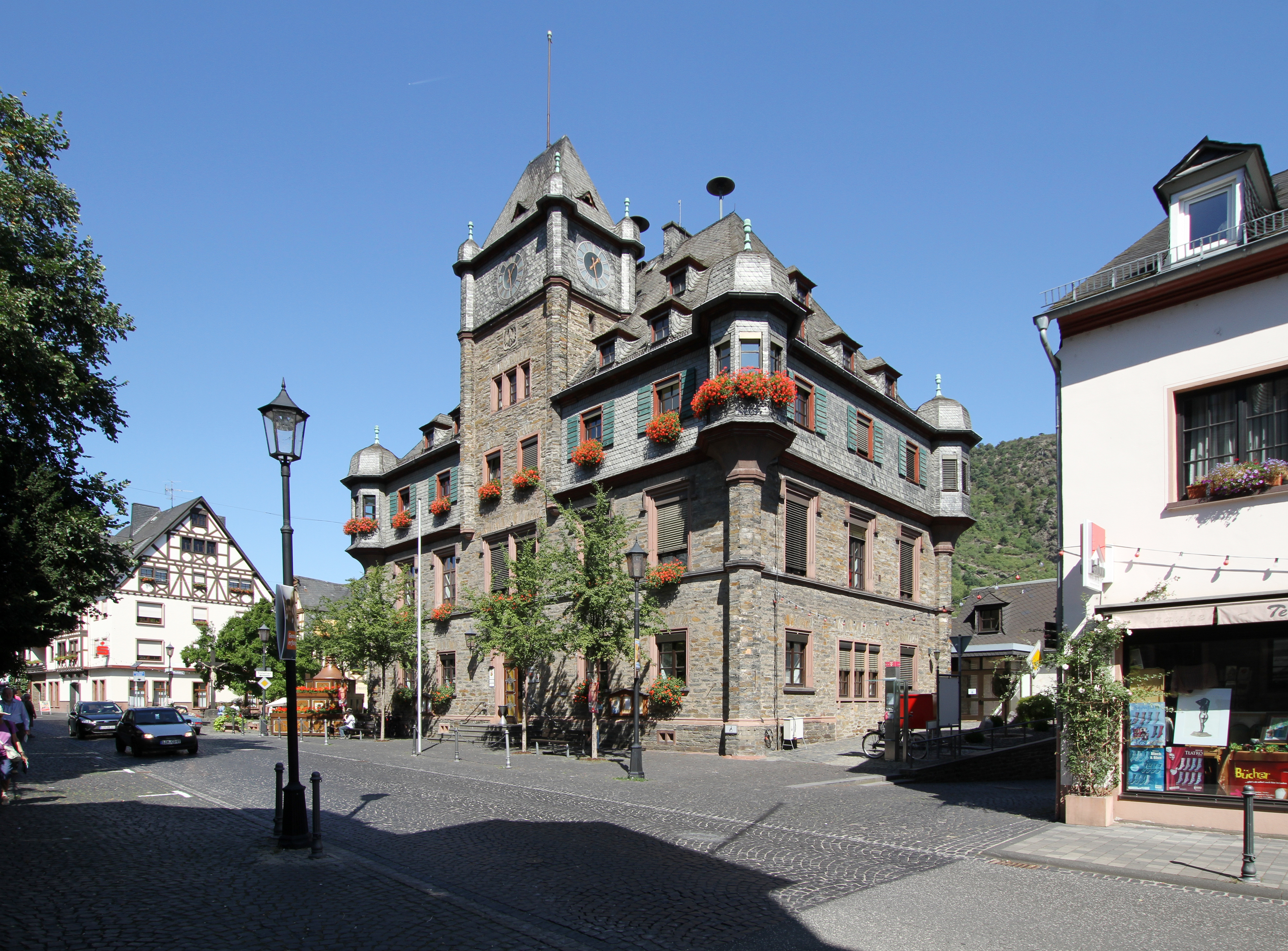 Old town hall of Oberwesel, Germany